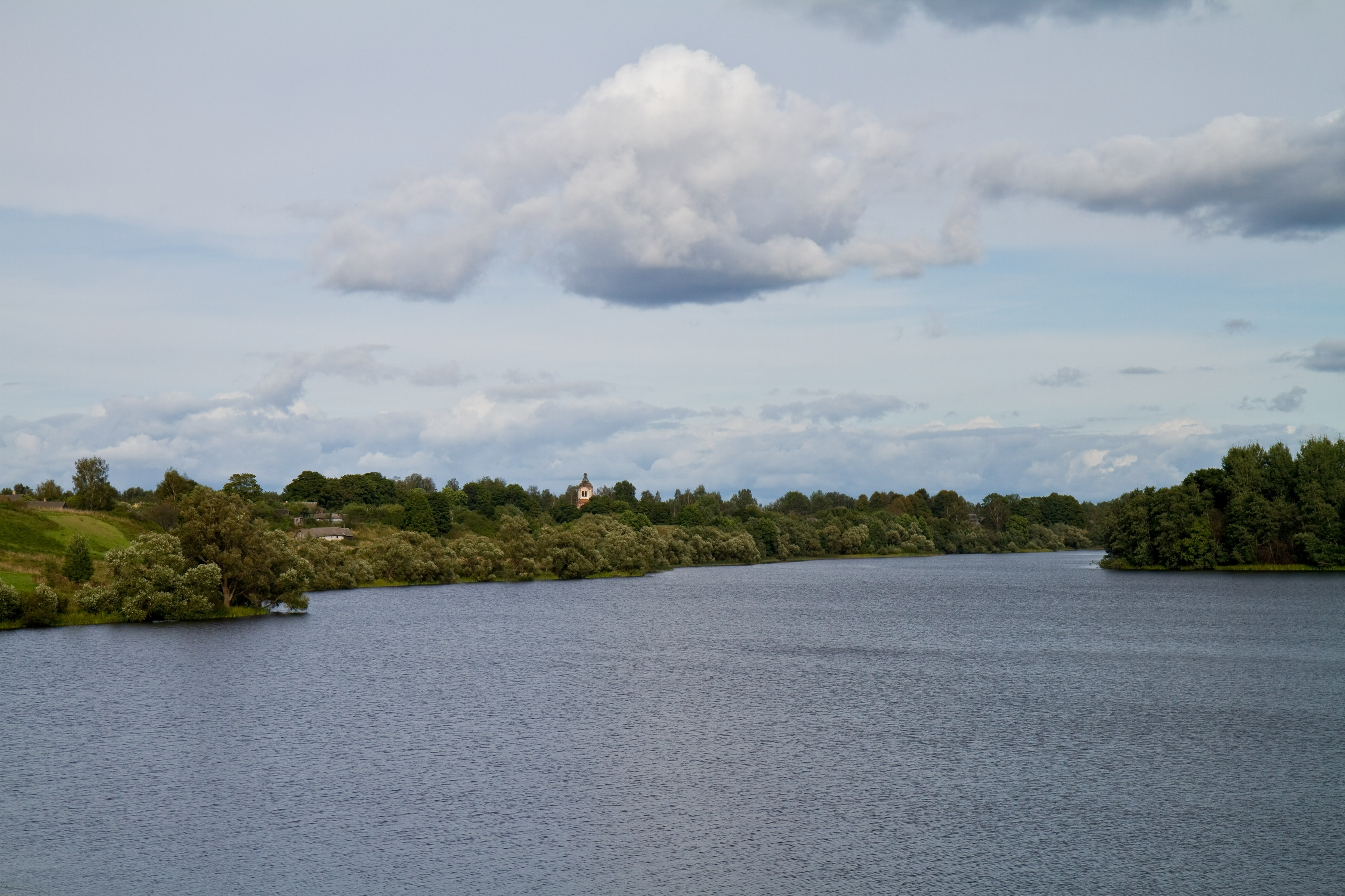 Rosica Lake. Vierchniadźvinsk district, Viciebsk province, Belarus.